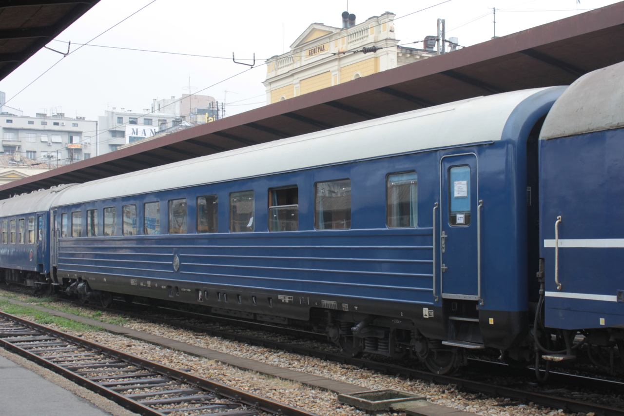 ŽS 50 72 71-69 700-9 at Beograd station in the consist of B 1342 "Autovoz" (motorail train) from Bar.